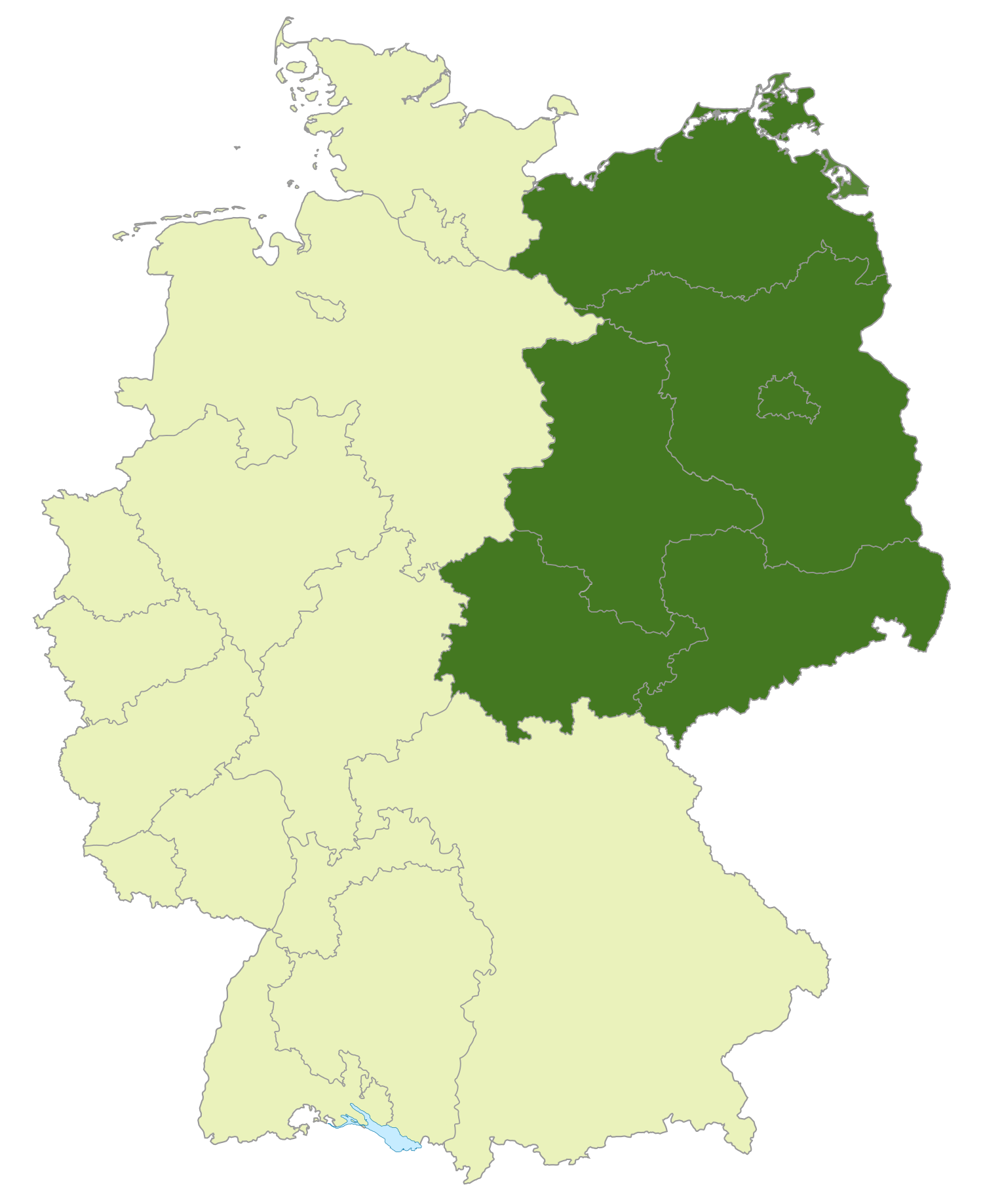 Map of regional soccer association of Nordostdeutschland, Germany